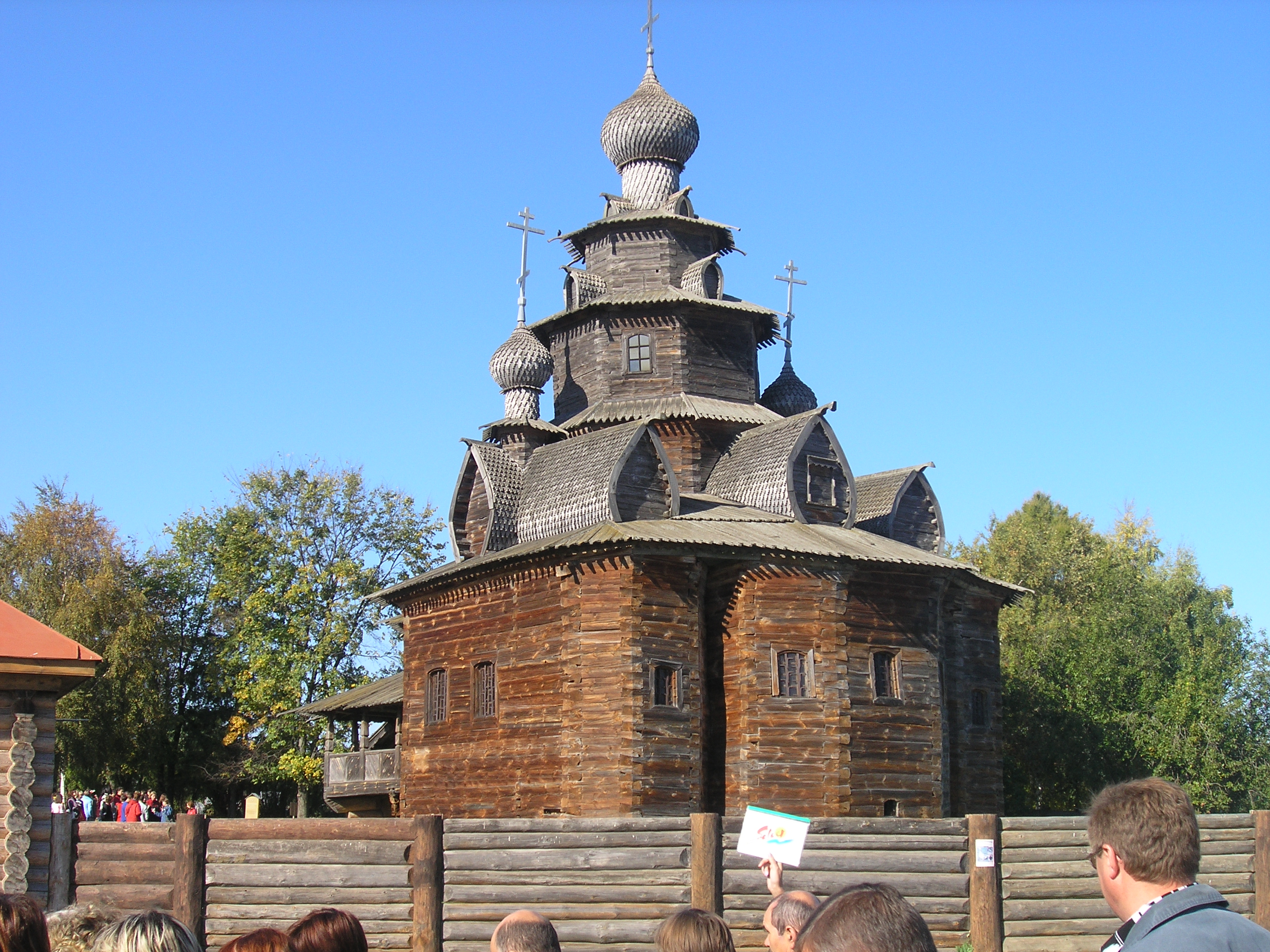 Church of Transfiguration. Museum of Wooden Architecture and Peasant Life in Suzdal, Russia.